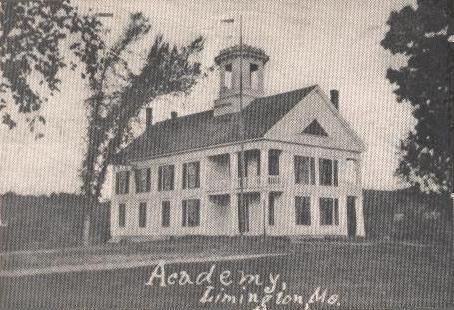 Limington Academy, Limington, Maine. Incorporated in 1848, it was built in 1852.